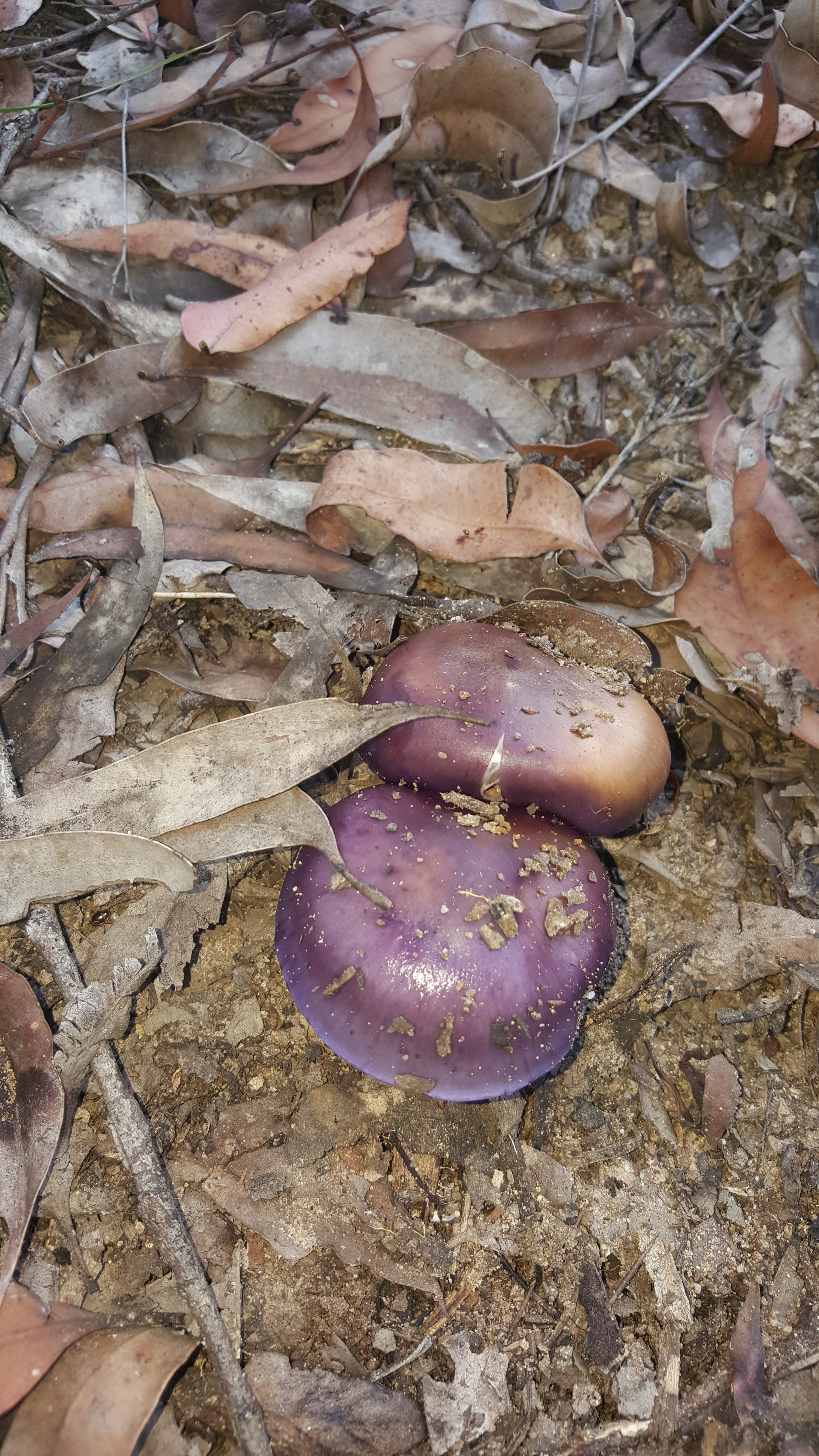 Cortinarius archeri in eucalypt litter (Starlight Trail), Nattai National Park, showing faded colour after some sun and dry weather.